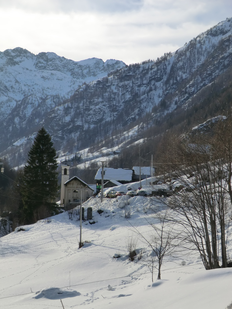 Sant'Antonio Hamlet in Val Vogna, Riva Valdobbia, Piedmont, Italy